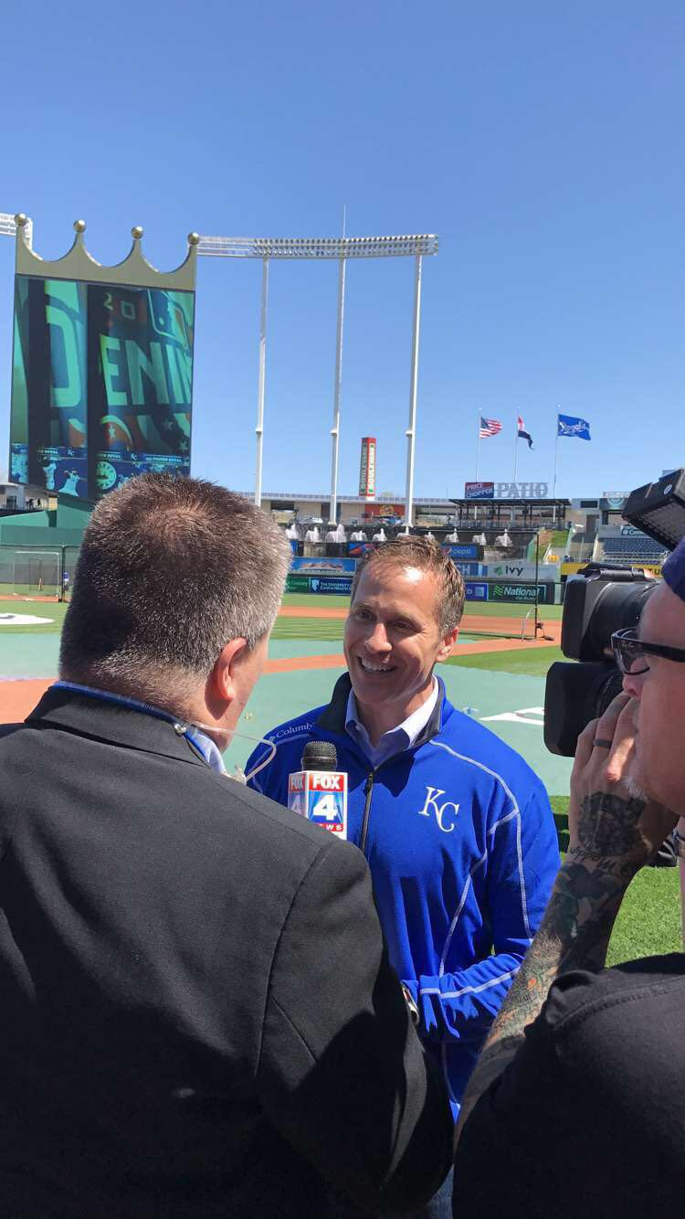 Governor Greitens speaks to Fox 4 News at the 2017 MLB Opening Day of the Kansas City Royals in August 2017.